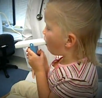 A child using a peak expiratory flow meter in a pediatric clinic.